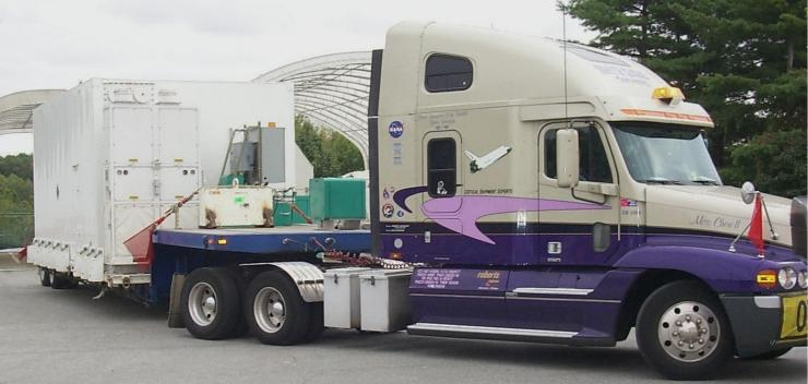 These pictures show some of the hardware which comprise the Landsat 7 satellite. Tractor and the forward end of the Transporter as it is being backed into the shelter behind building 27. 07-October-1998